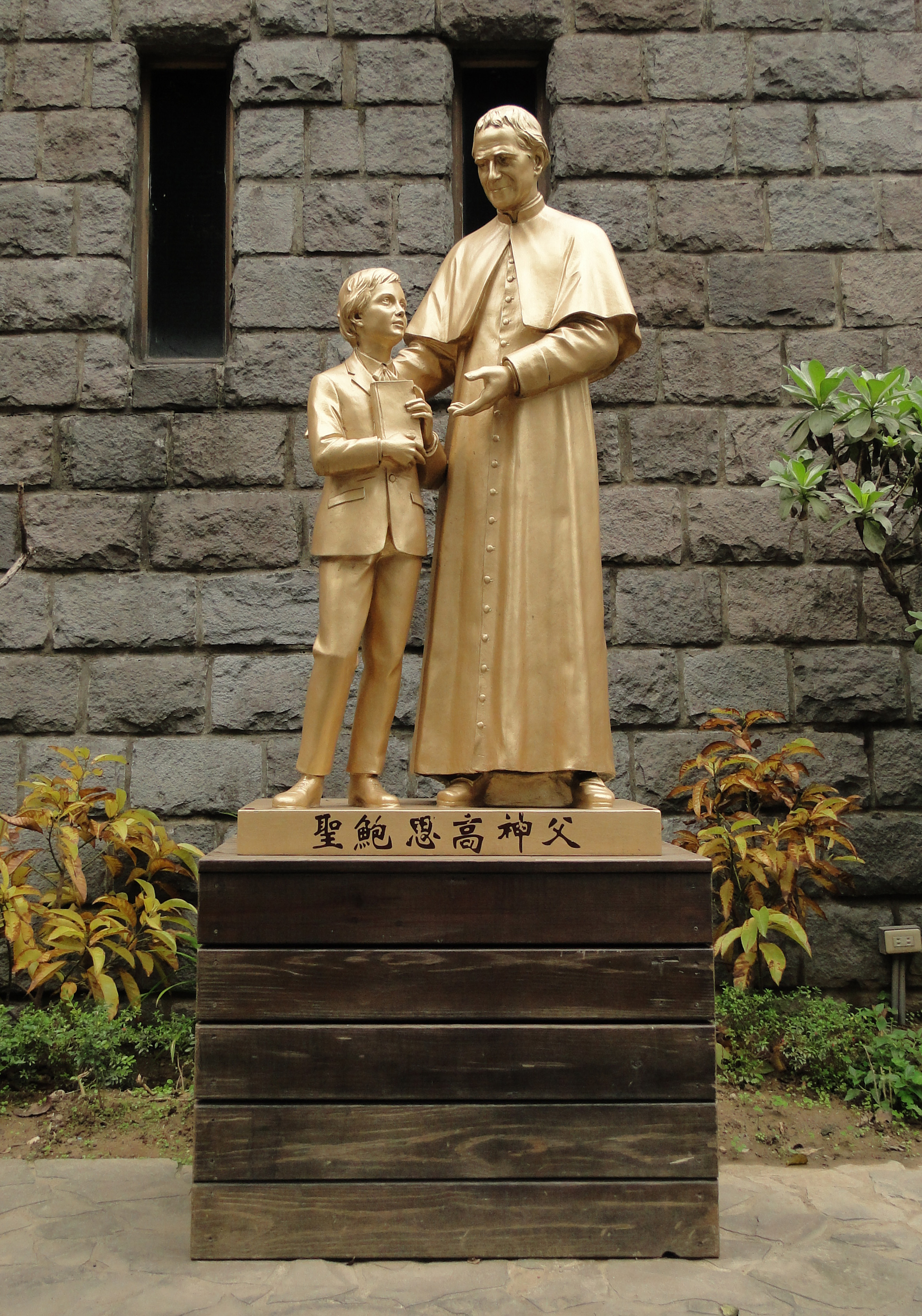 Statue of Don Bosco at St. John Bosco Parish Church, Taipei, Taiwan